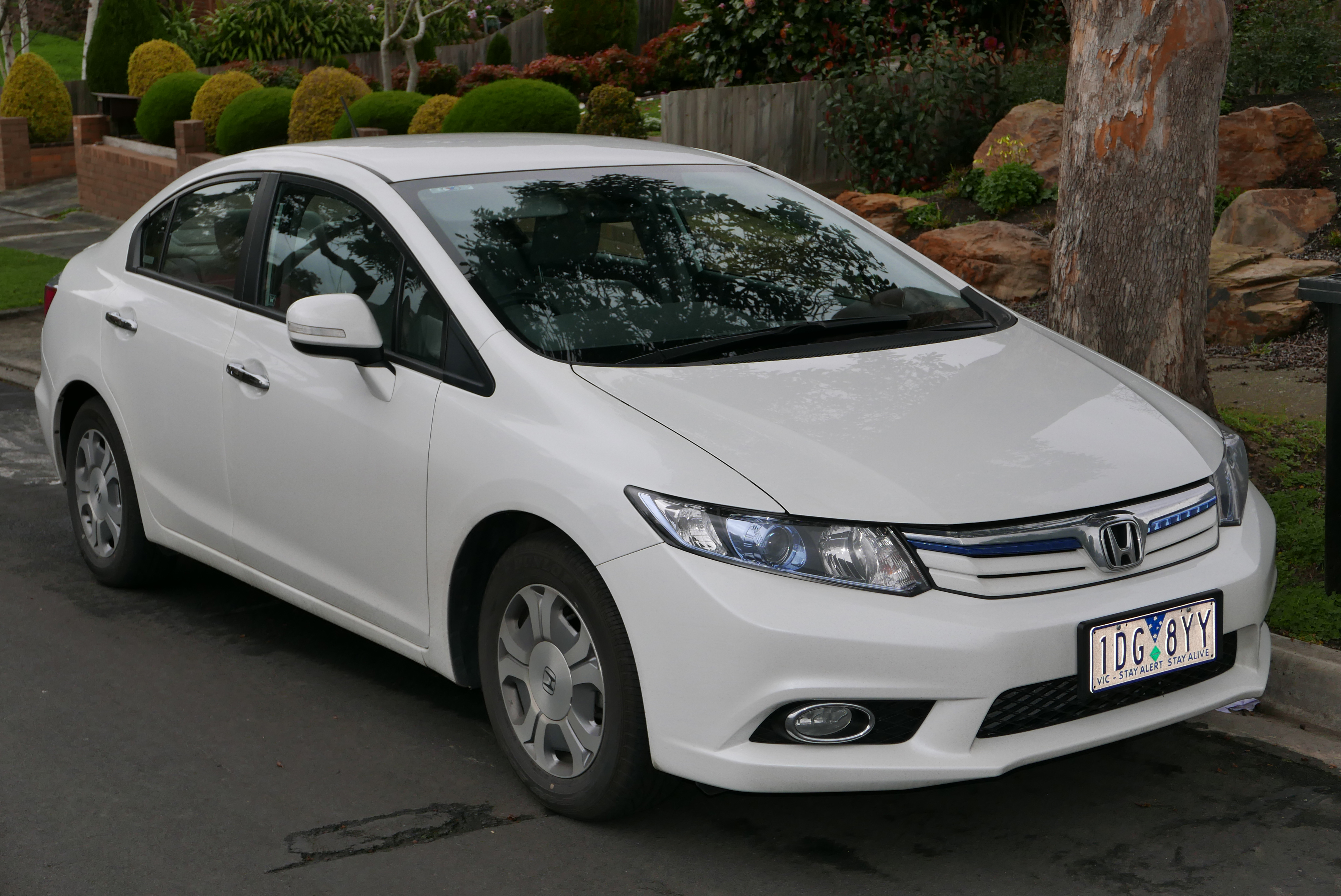 2014 Honda Civic (FB4 MY13) Hybrid sedan. Photographed in Doncaster East, Victoria, Australia. Vehicle registration enquiry resultsJurisdictionVictoriaRegistration1DG8YYChassis codeMRHFB4620DP030156Engine codeLEA22601335Compliance date2014-07Year of manufacture2014